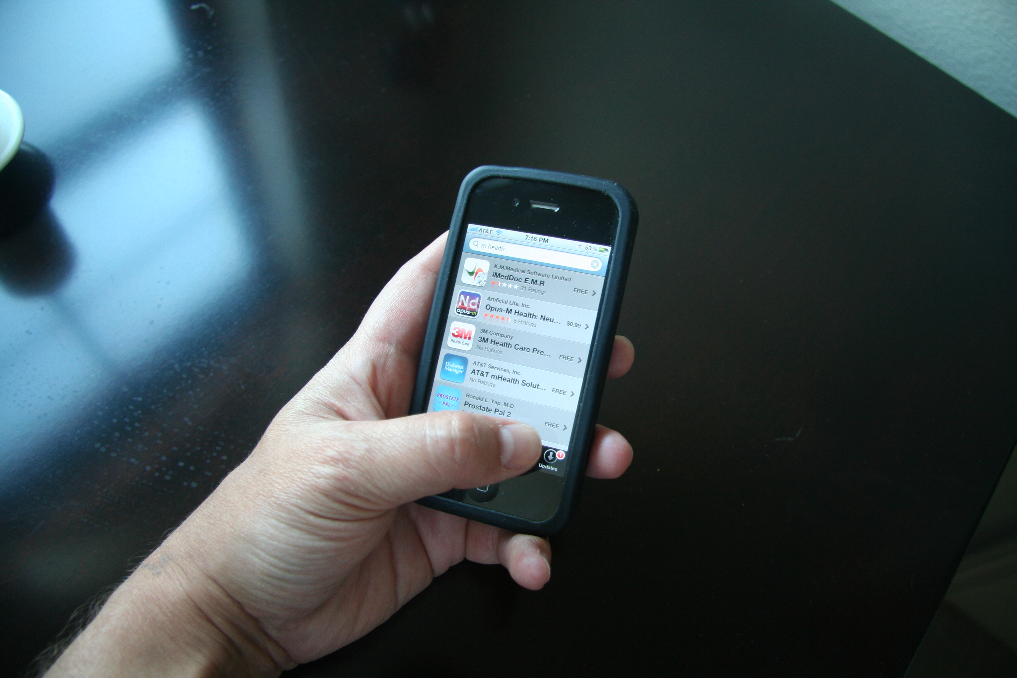 There are more than 65,000 smartphone applications available today for managing diabetes as developers rush to bring new health-related services to consumer devices, says Eric Dishman, an Intel Fellow and general manager of health strategy and solutions. Intel Free Press story: Is Healthcare the Next Space Race? American healthcare system risks losing competitive edge.